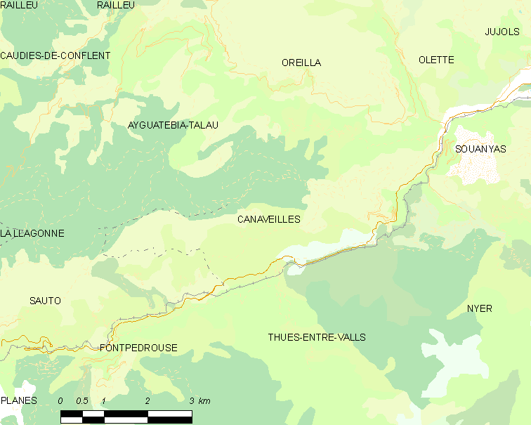 Map of French municipality